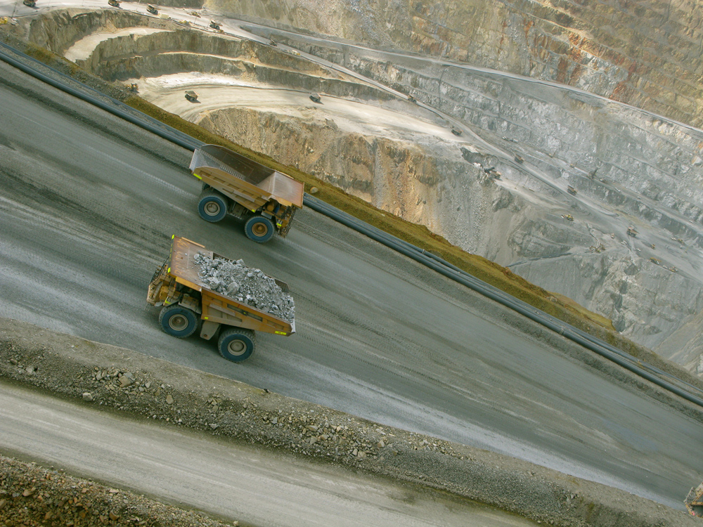 PT. Newmont Nusa Tenggara Batu Hijau - West Sumbawa NTB Here's the road to the exploration field of gold, cooper & silver mine, the diameter of the exploration wheel is about 2,5 kilometers.. It was a mountain with height about 400 meters above the sea level, and right now the company already dig it into the earth which almost reach 100 meters below the sea level... They plan to dig 'til 500 to 600 meters below the sea level...